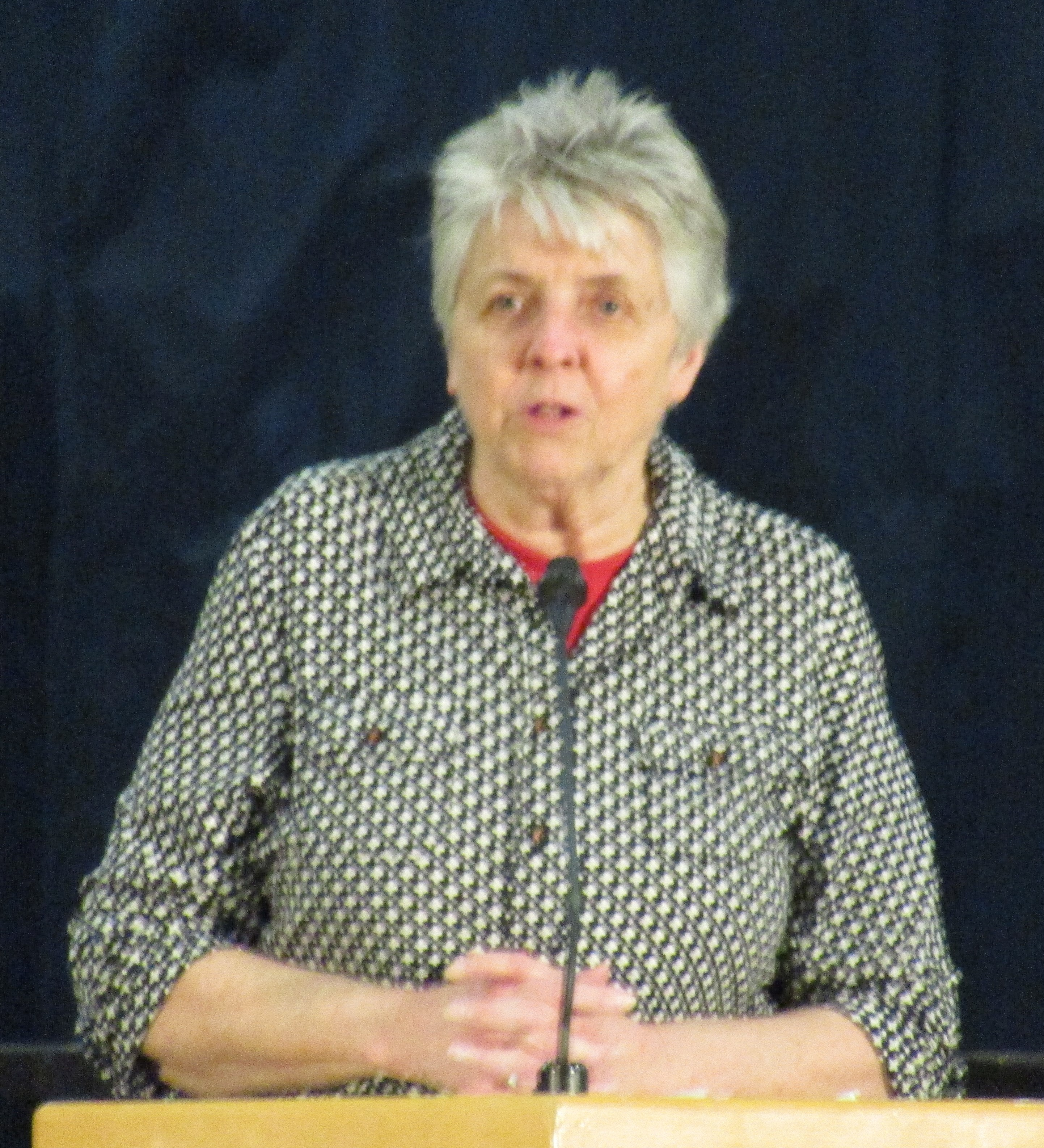 Mary Ellen Edmunds speaking at the BYU Women's Conference.